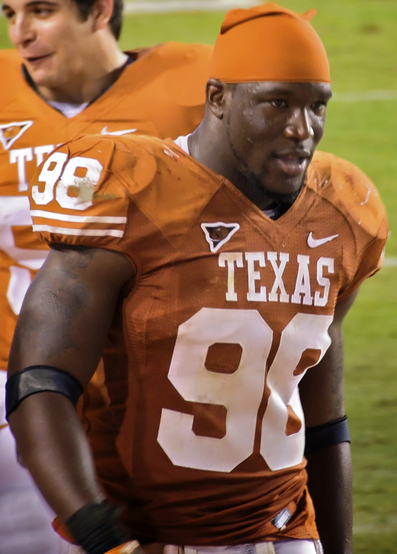 Brian Orakpo (#98) at the 2008 Texas vs. Texas A&M game